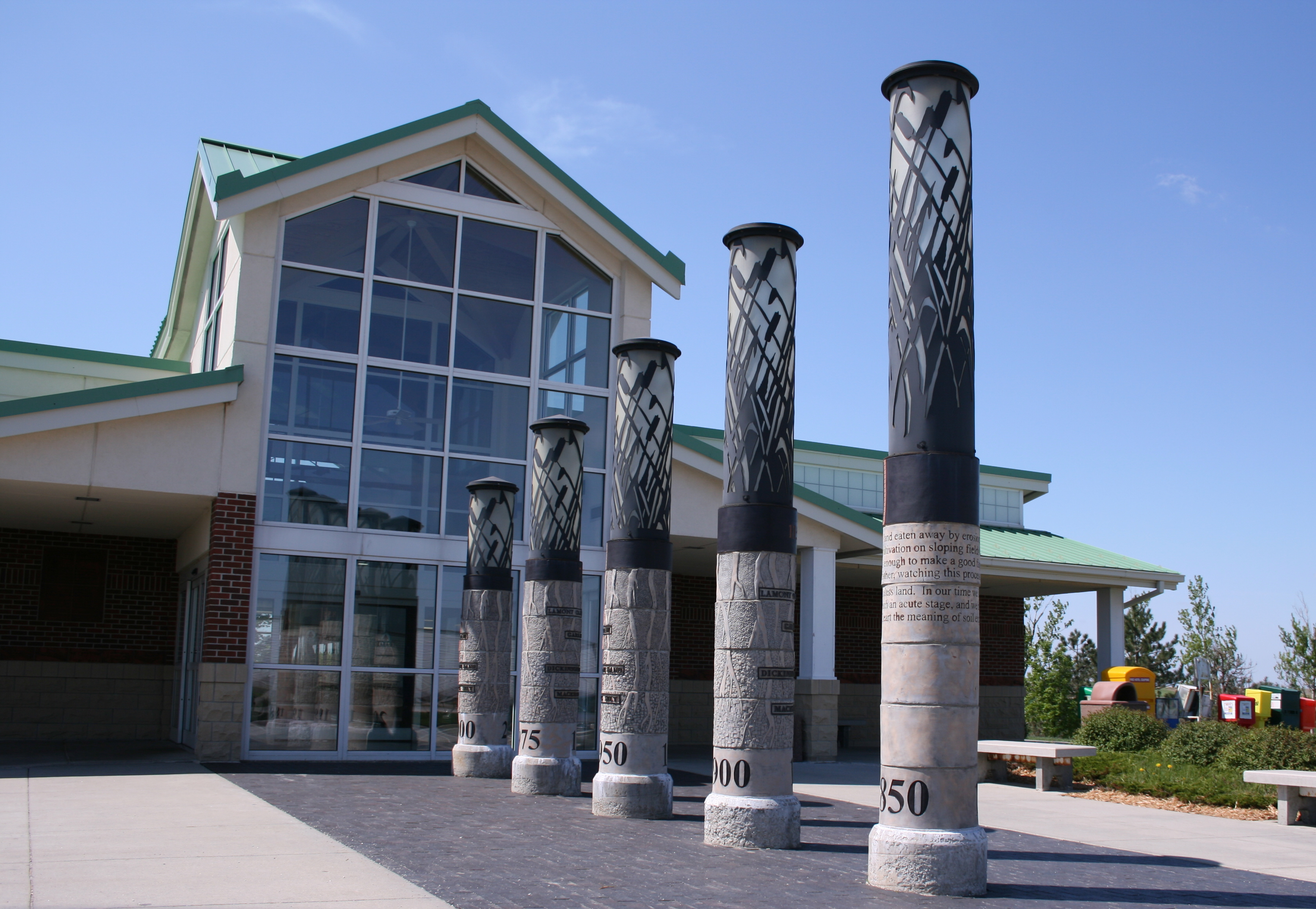 Adair - Westbound rest area along Interstate 80 in Adair County, Iowa.